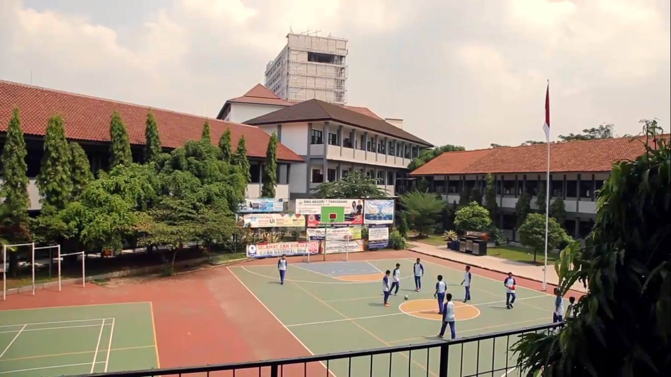 sman 7 fields